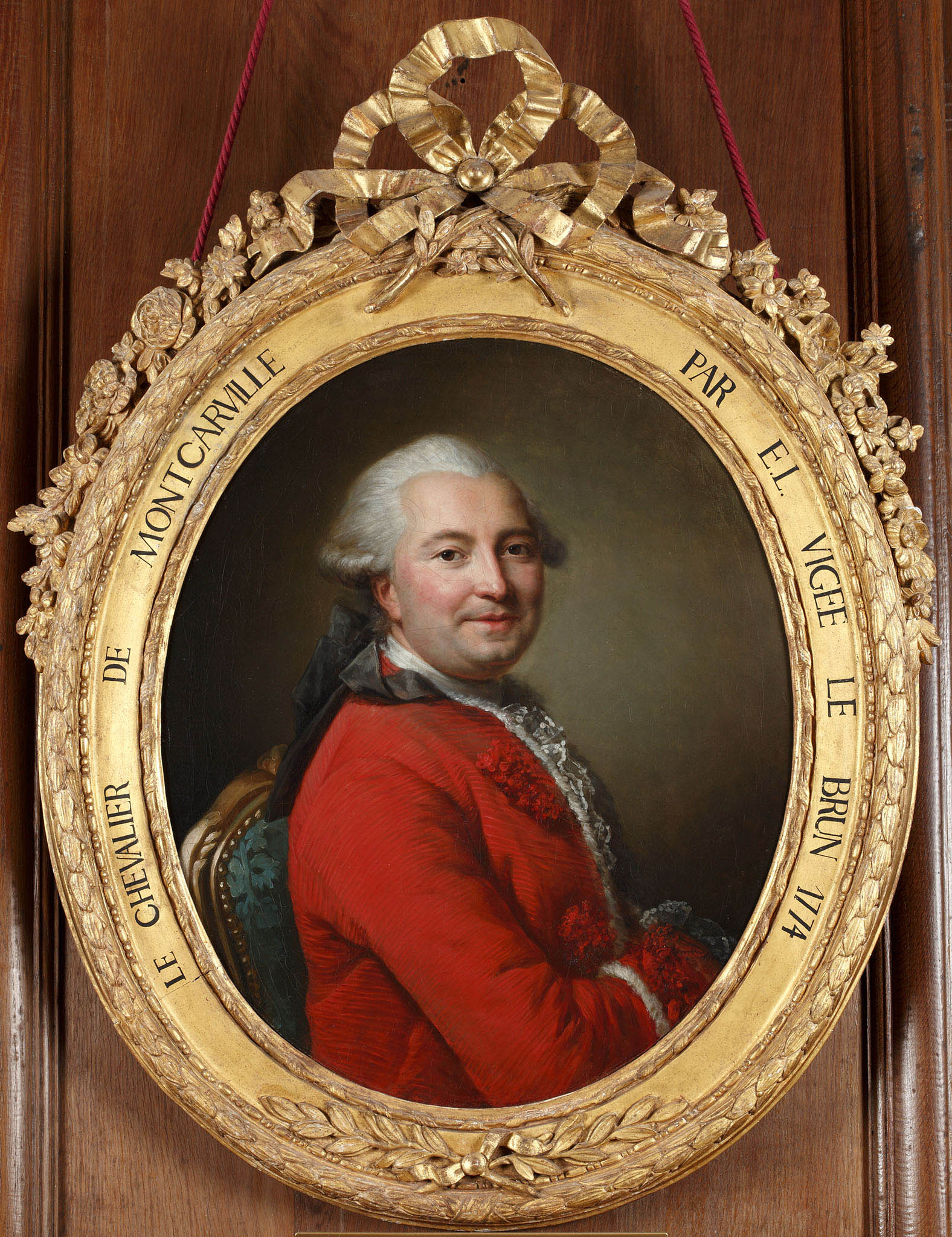 Robert-Jacques Benet de Montcarville, oil on canvas, oval. Château Parentignat, Auvergne, France. Gazette des Beaux Arts, Jan 1982, p. 18; museum website (color). Robert Benet de Montcarville (1698-1771), «issu de la noblesse de robe, chevalier censeur pour le Roi», was also chair of astronomy and mathematics at the Collège de France.